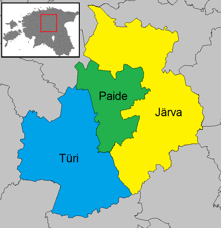 Map of the municipalities of Järva County after the Administrative Reform of Estonia in 2017.